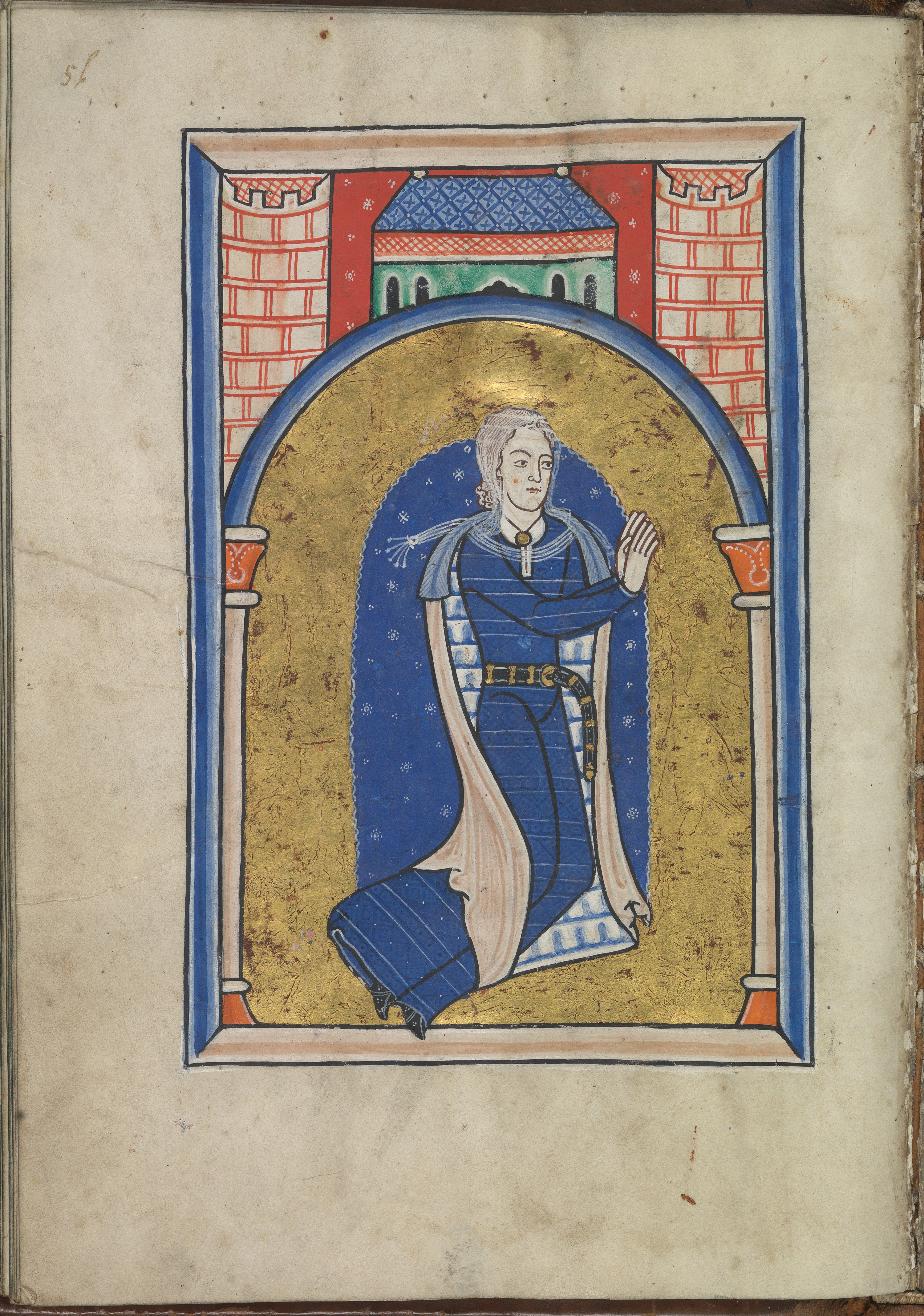 Folium 028v from the Psalter of Eleanor of Aquitaine (ca. 1185) from the collection of the National Library of the Netherlands. The illumination shows Donor portrait - A noble lady kneeling.